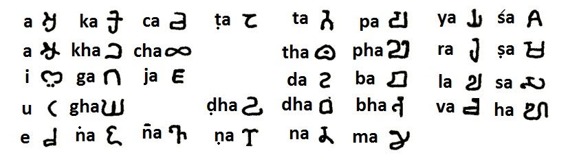 The Kadamba script is the ancestor of the old Kannada script which evolved into the Kannada and Telugu scripts.